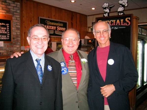 Congressman Gary Ackerman sharing both jokes and his thoughts on the legal system with actor/comedian Larry David and Harvard law professor Alan Dershowitz. (October 2004)